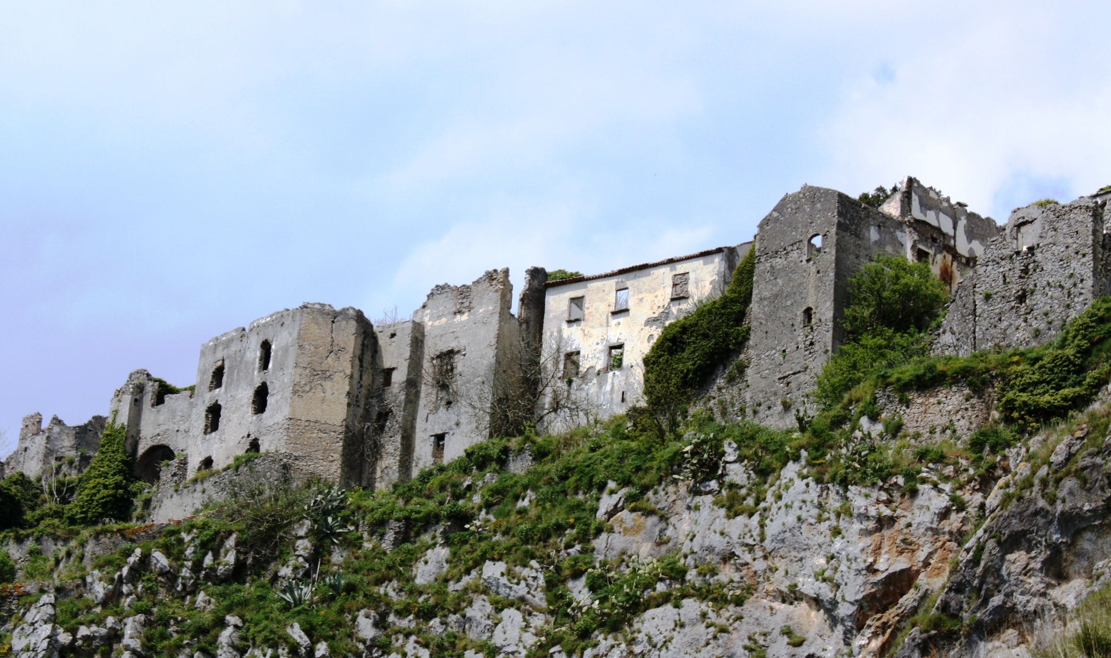 Photo of Maratea Castello